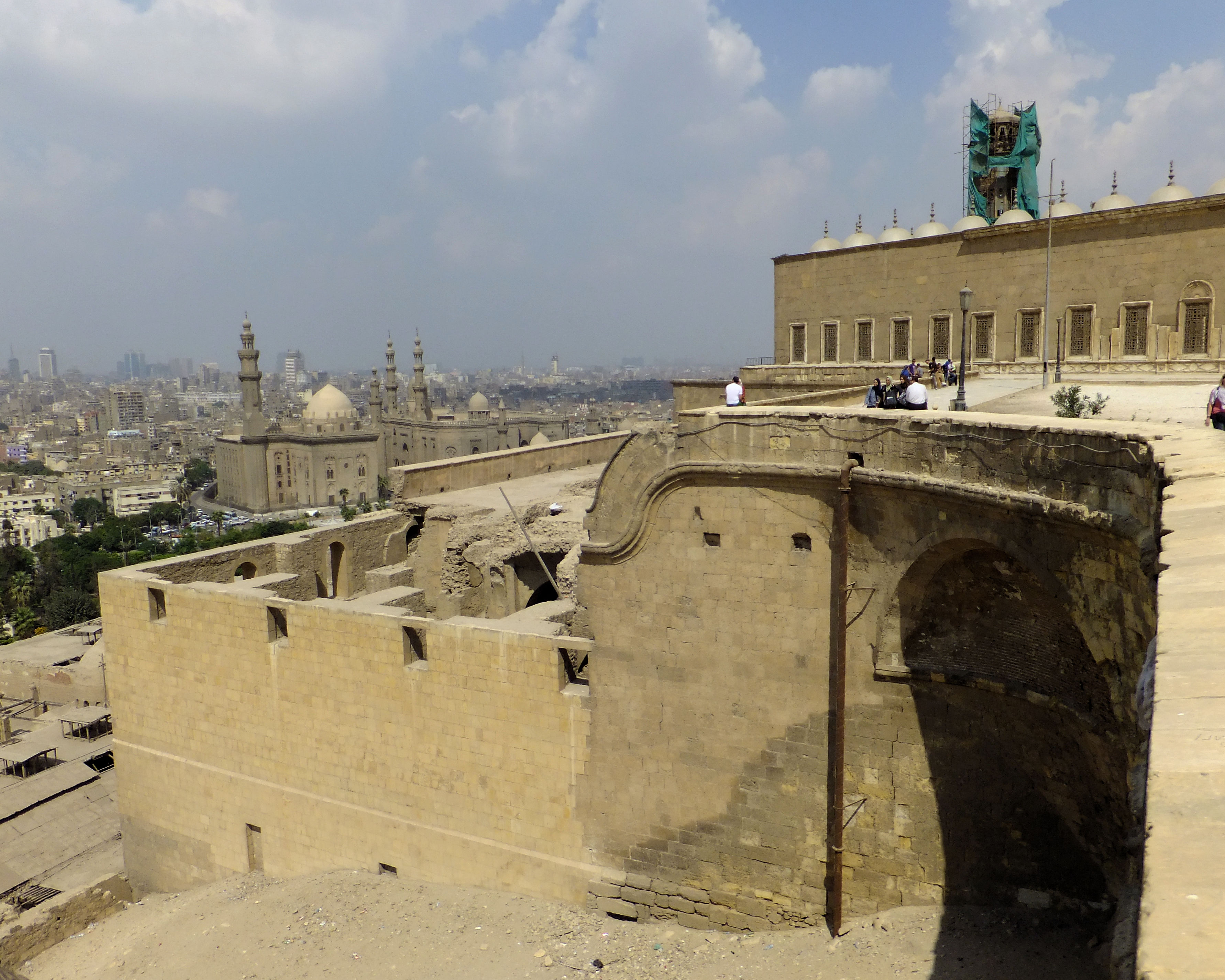 View from the terrace south of the Muhammad Ali mosque, with the probable ruins of the lower levels of the Ablaq Palace (Qasr al-Ablaq) visible on the left, albeit obstructed by later reconstructed walls.